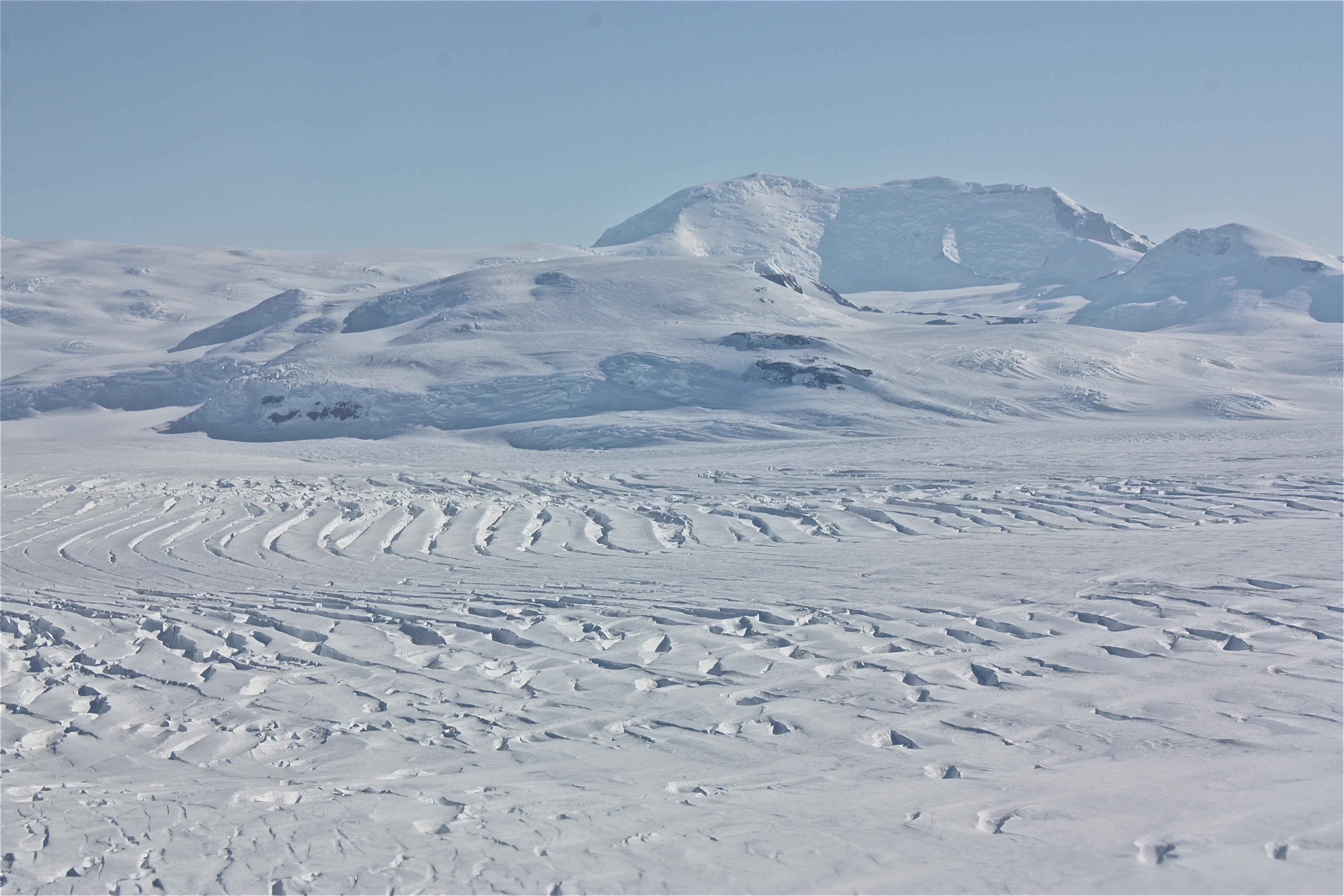 Mt. Murphy breaks the monotony of the mostly flat and barren white landscape of West Antarctica during a science flight.